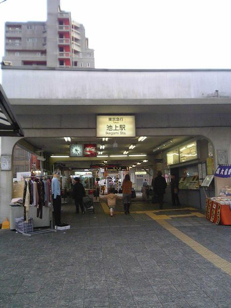 An entrance of Ikegami Station